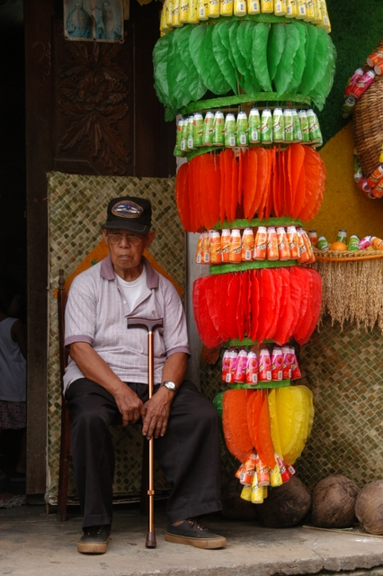 Grampa Beside Kiping Lantern Photographed during the Annual Pahiyas Festival of Lucban, Quezon (2003)